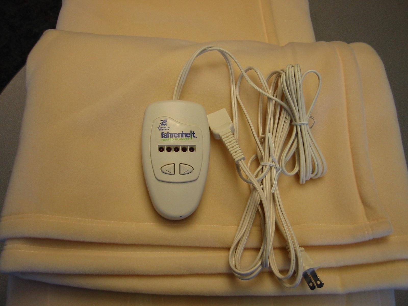 This is a picture of my personal electric blanket.